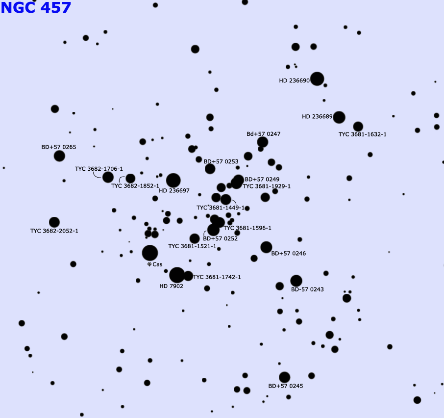 Detailed map of NGC 457